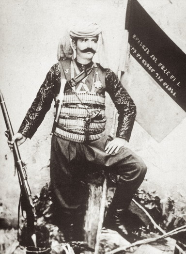 Andranik Ozanian